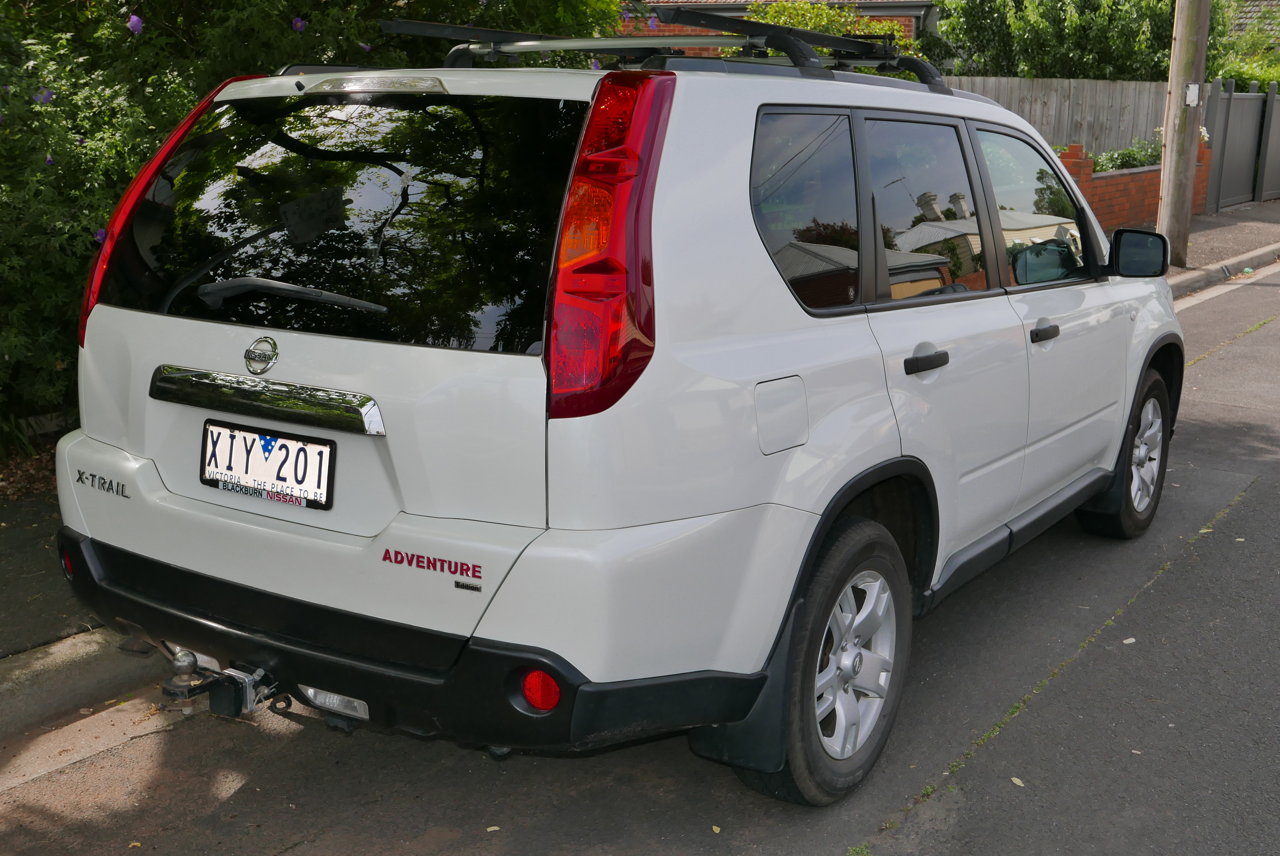 2009 Nissan X-Trail (T31) Adventure Edition wagon. Photographed in Ascot Vale, Victoria, Australia. Vehicle registration enquiry resultsJurisdictionVictoriaRegistrationXIY201Chassis codeJN1TANT31A0015619Engine codeQR25816335ACompliance date2009-08Year of manufacture2009